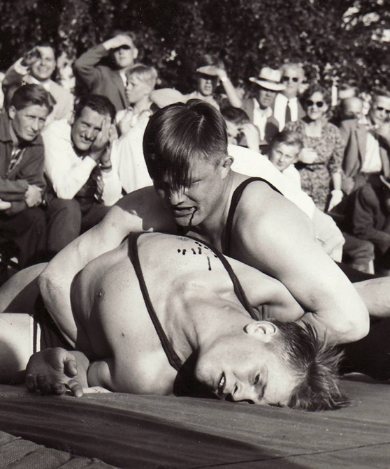 Ilmari Ruikka (top) pins his opponent.